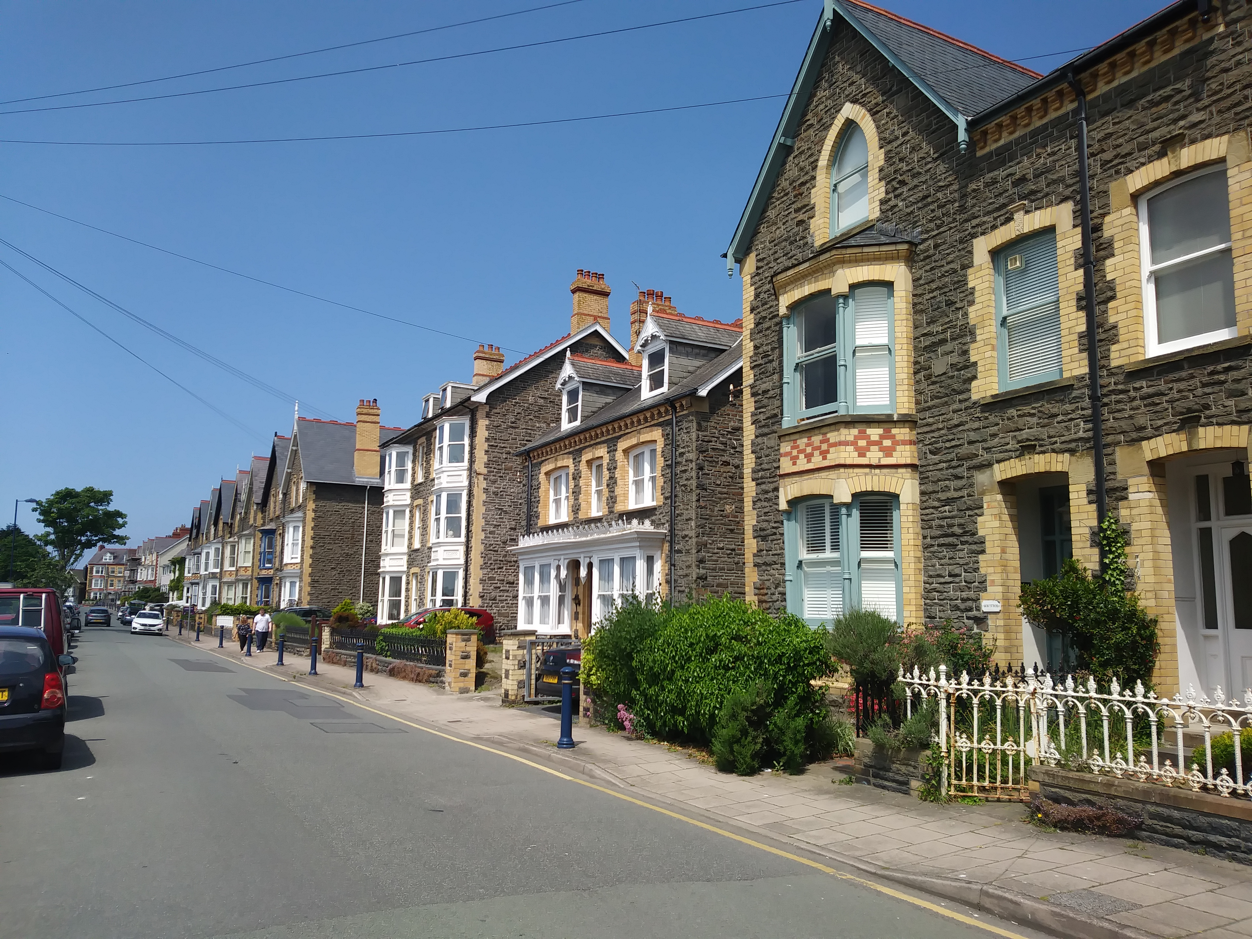 North Rd, Aberystwyth